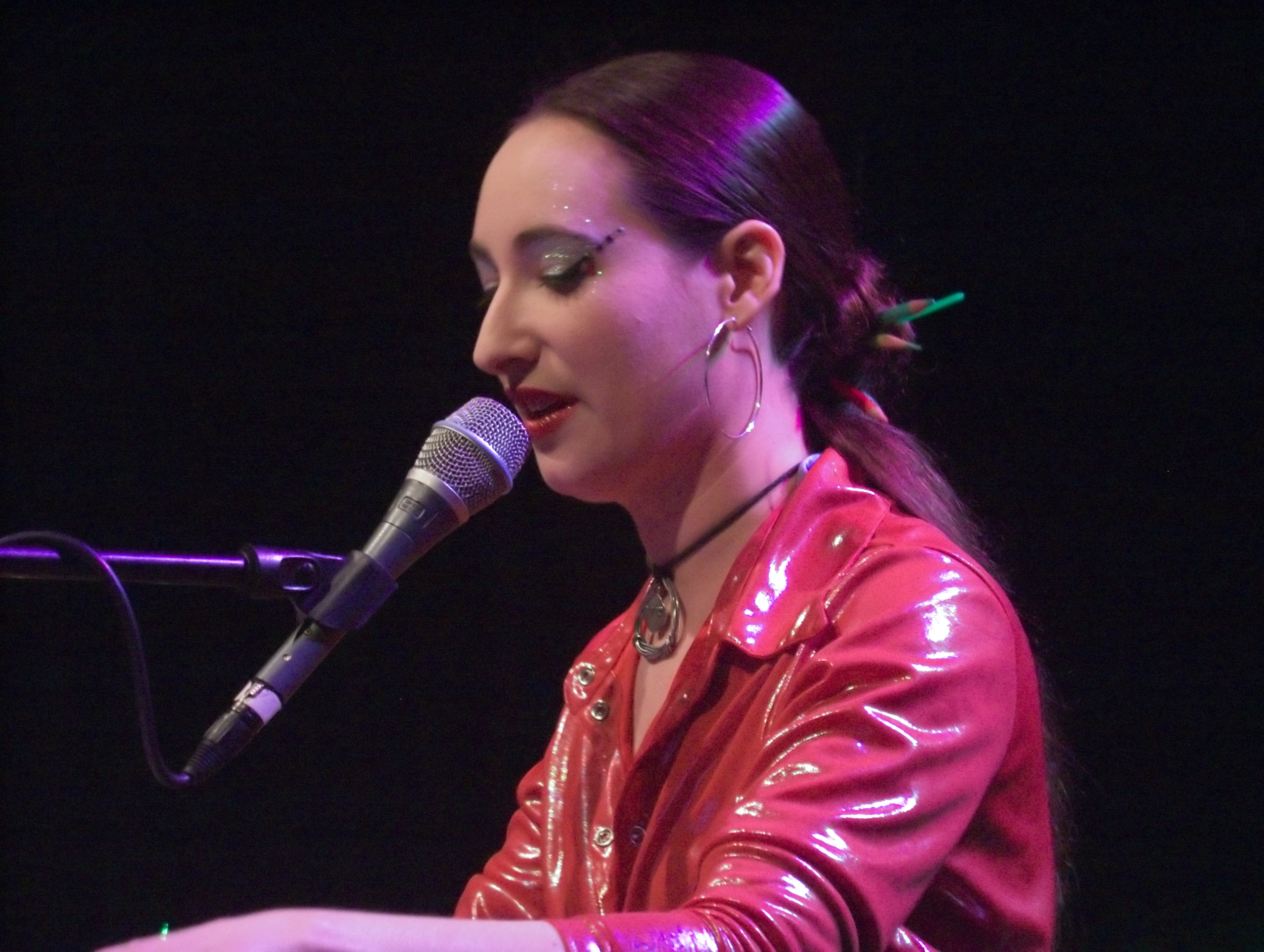 Rachael Sage, Joe's Pub April 16, 2002 * * Photoshopped (RAW conversion/White Balance/Noise Reduction) handheld 1/15th sec @ 800 ISO!